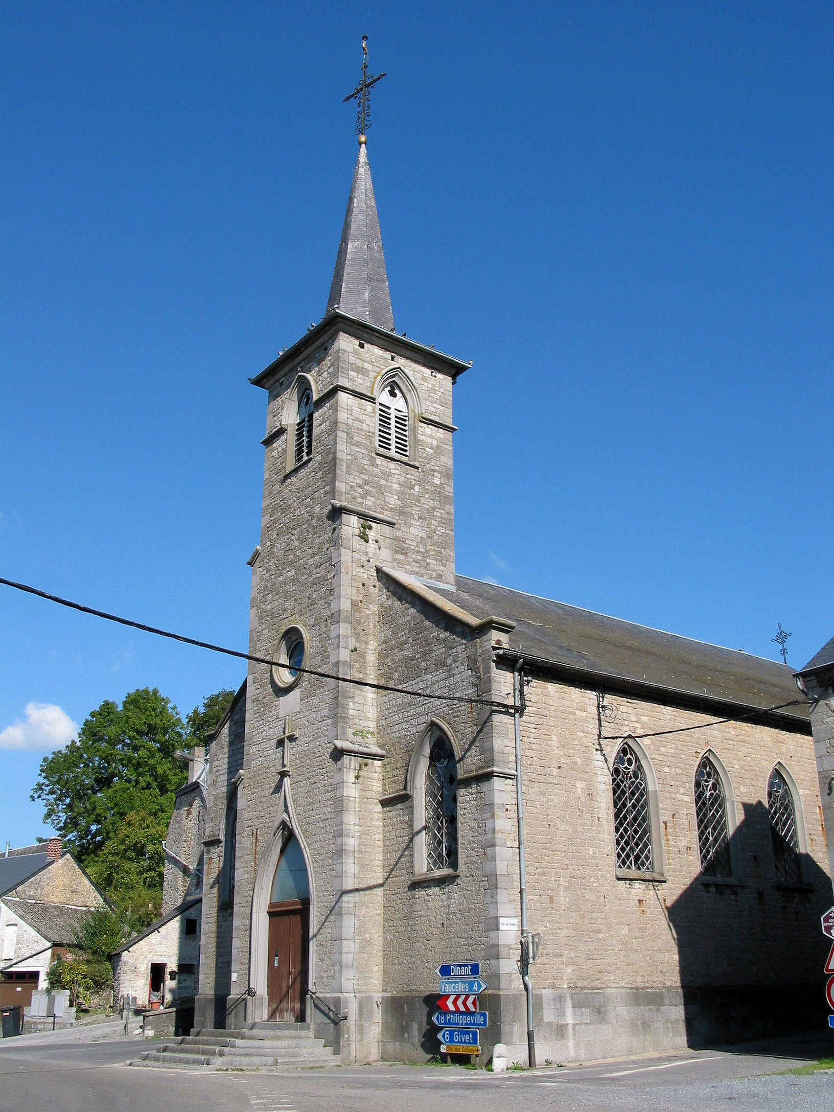 Doische (Belgium), the St. George's Church (1860).